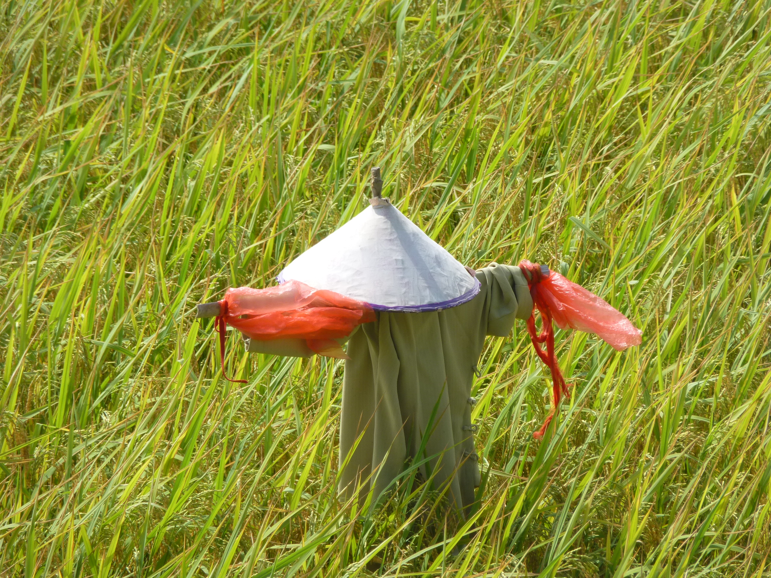 A scarecrow in a rice fields near the new road from Hui'an Railway Station to downtown Hui'an.